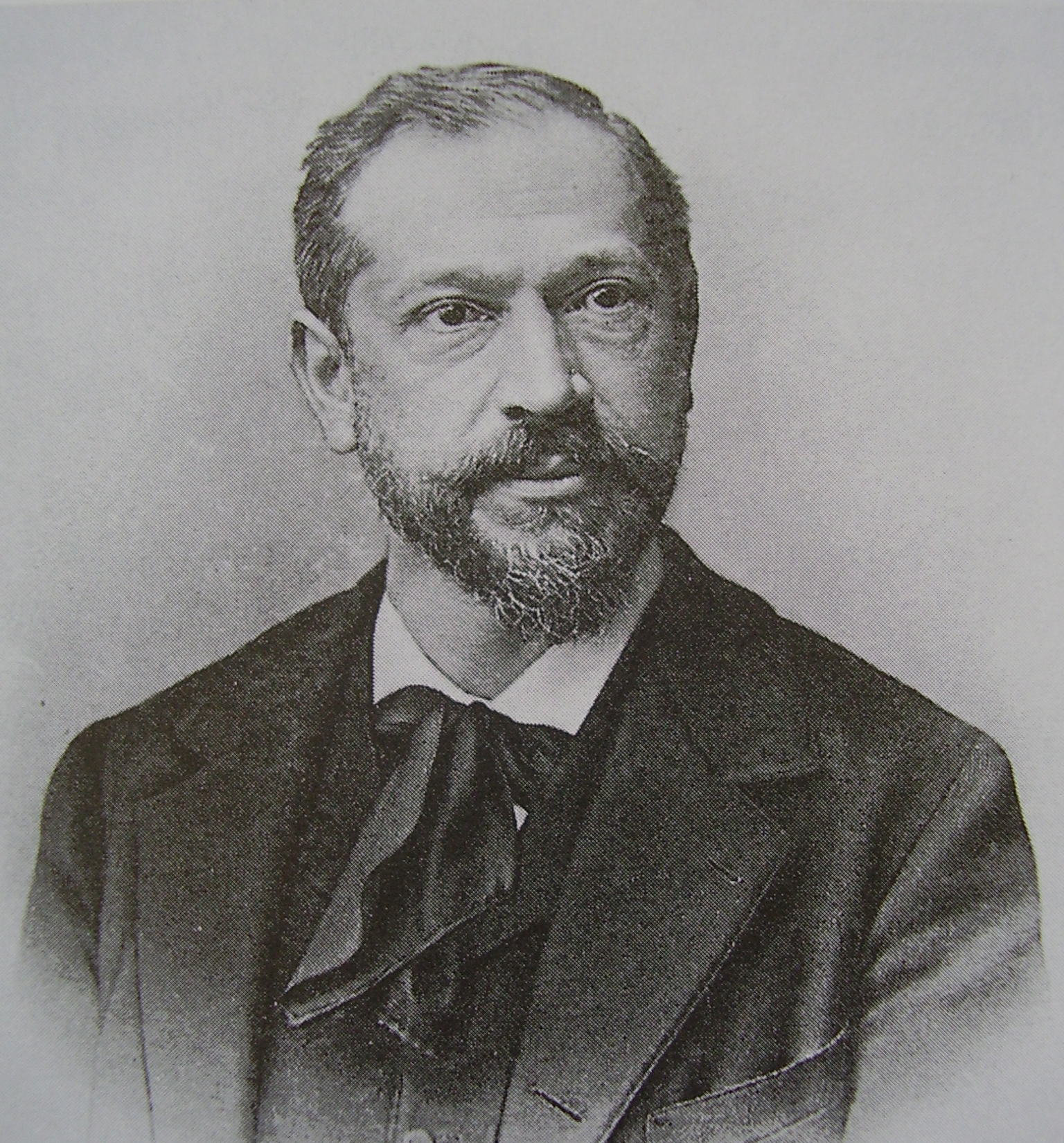 Photograph of Arthur Giry